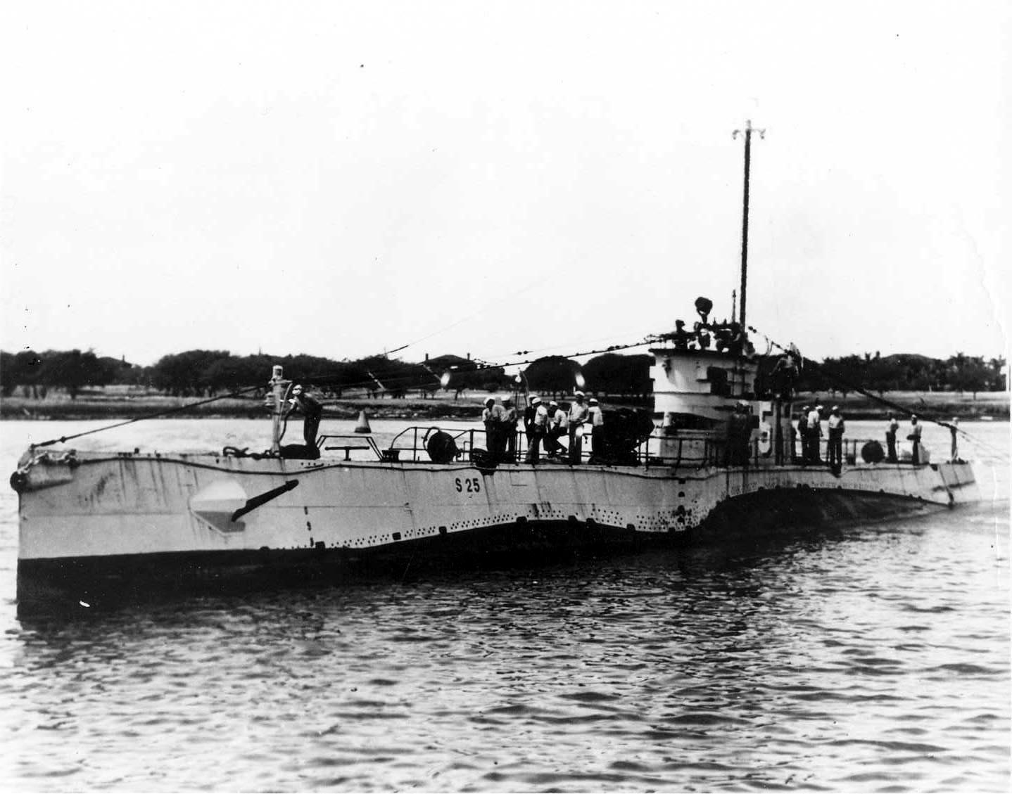 Portside view of the S-25 (SS-130) possibly off New London, CT., during 1923 - 24.